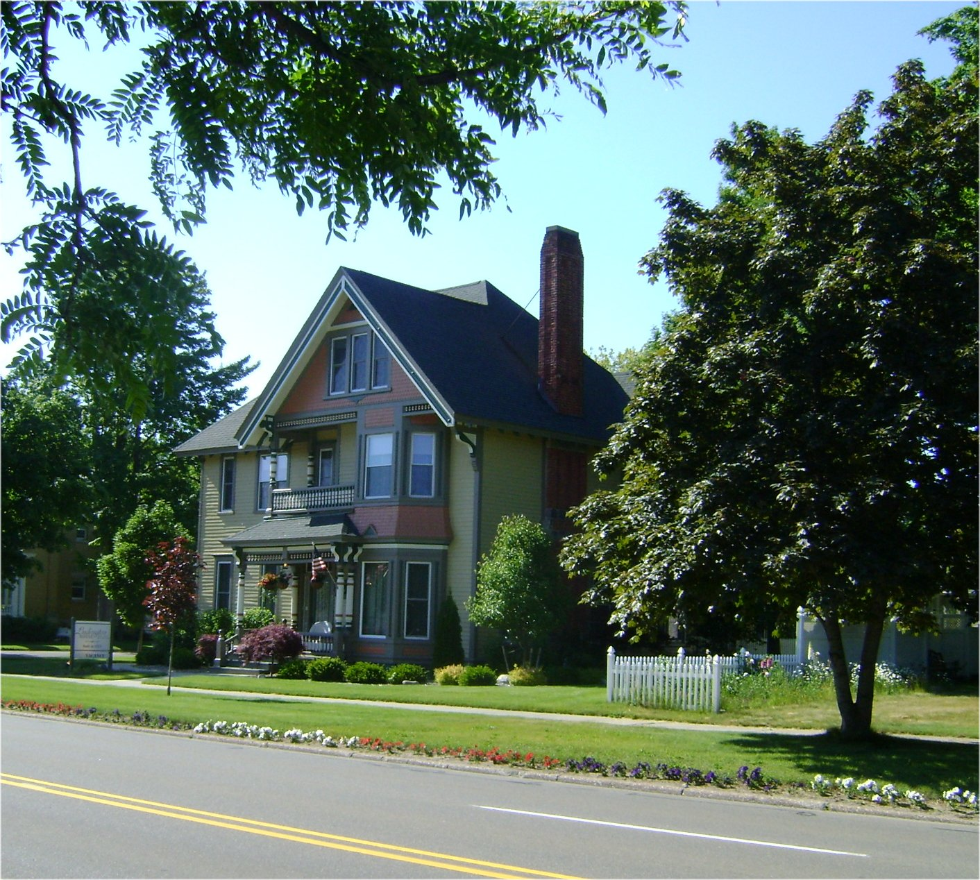 Antonine Cartier house in Ludington, Michigan